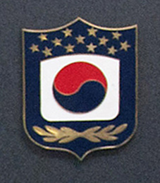 ROK/US Combined Forces Command insignia